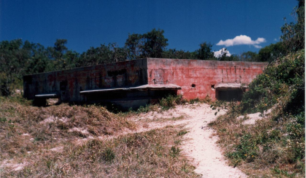 WWII Coastal Defence on Bribie Island north of Brisbane